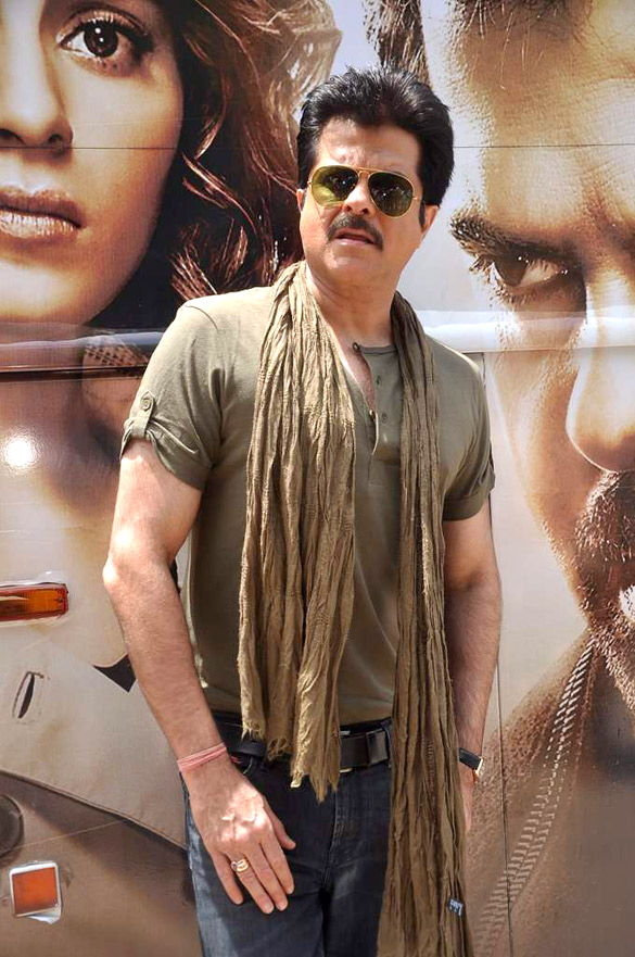 Anil Kapoor at Tezz promotional bus ride